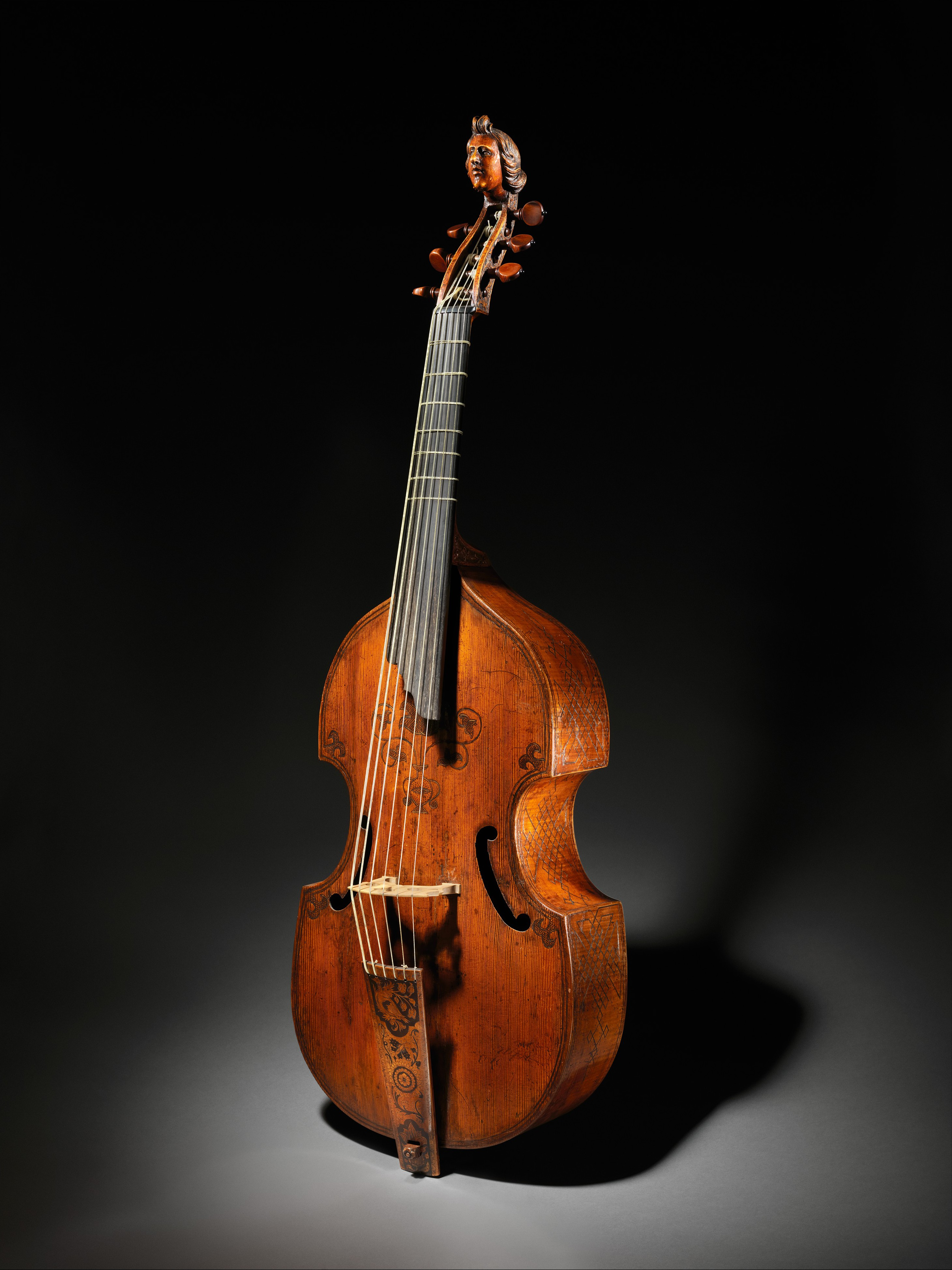 British; Viola da Gamba; Chordophone-Lute-bowed-fretted